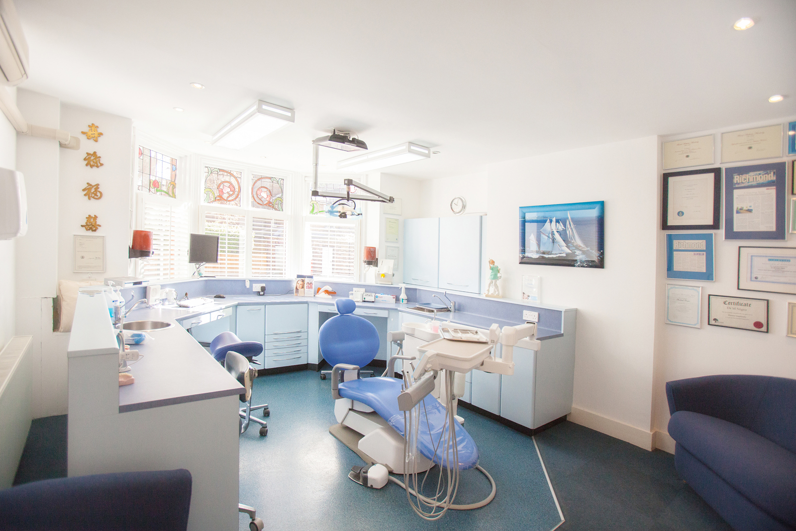 Dental surgery at Roseneath Dental Care.